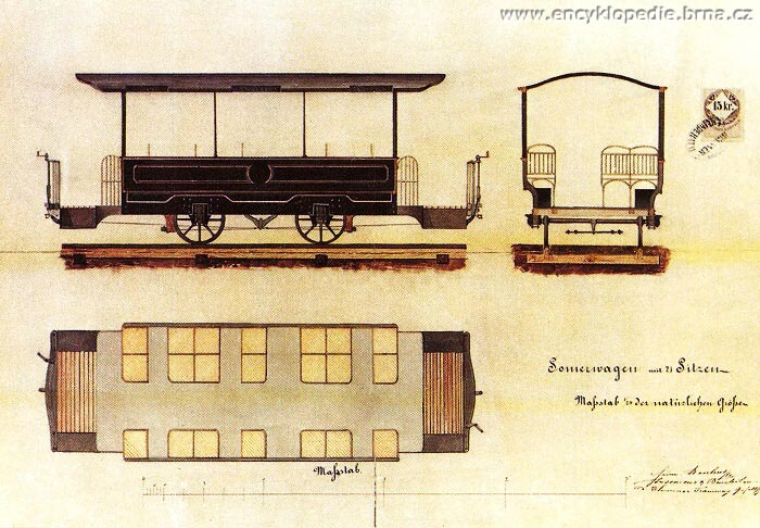 Design drawing of horse tram for Brno, Czech Republic